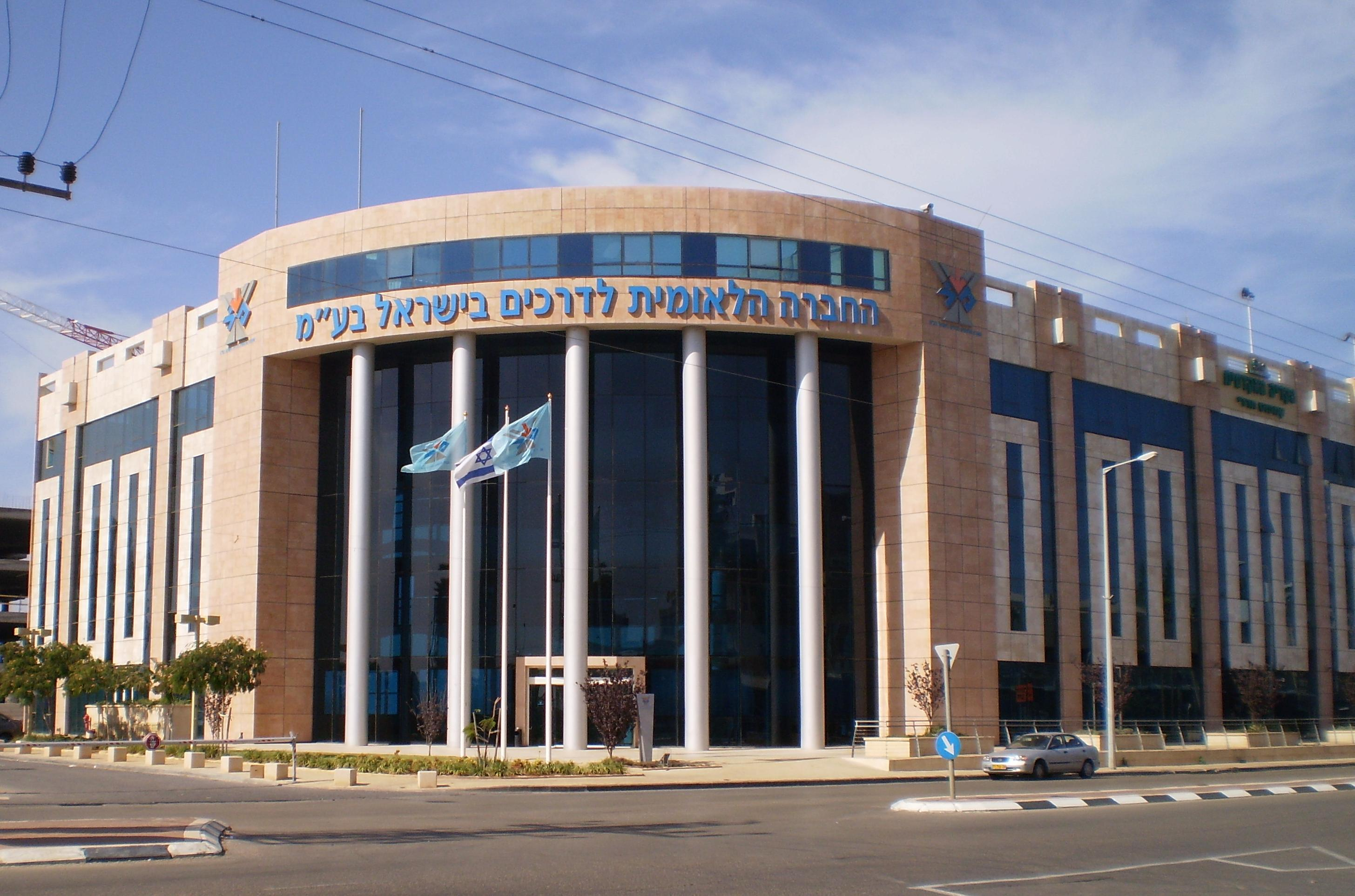 National Roads Company, Israel - main office, Or Yehuda